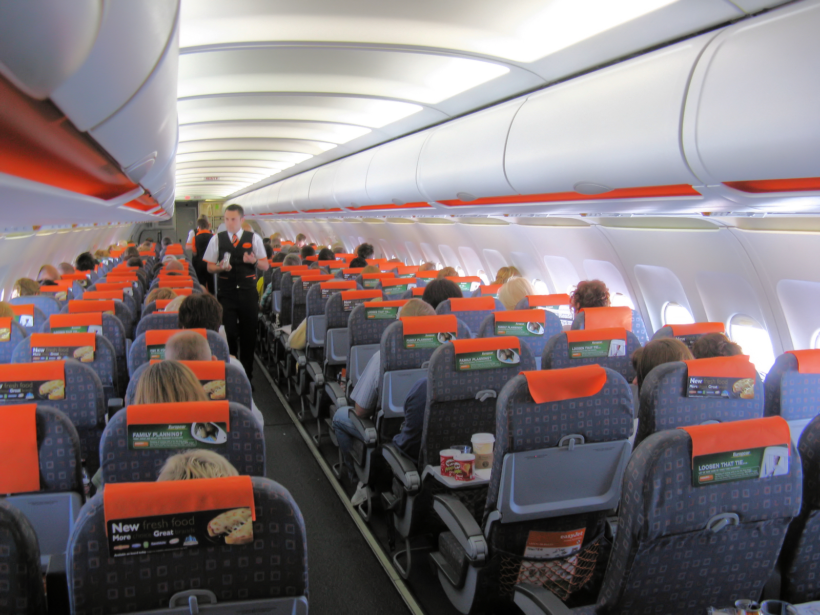 The cabin of an Easyjet Airbus A319-100 (G-EZAV) in flight from Palma Airport, Majorca, Spain to Bristol Airport, England.